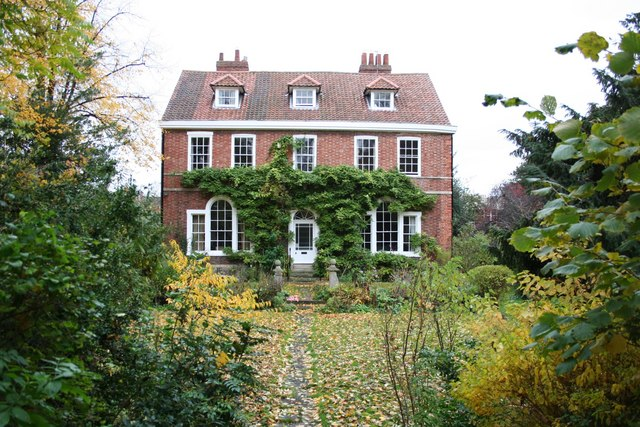 St.Wulfram's Vicarage By Grantham architect John Langwith in 1789, seen from Church Street